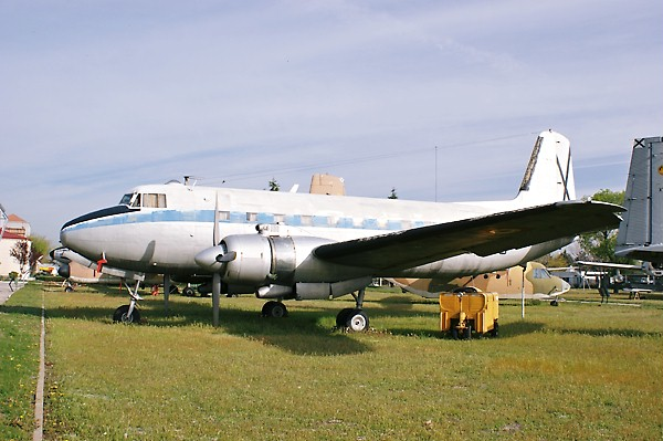 Another view of the CASA 207A Azur. 4/10.